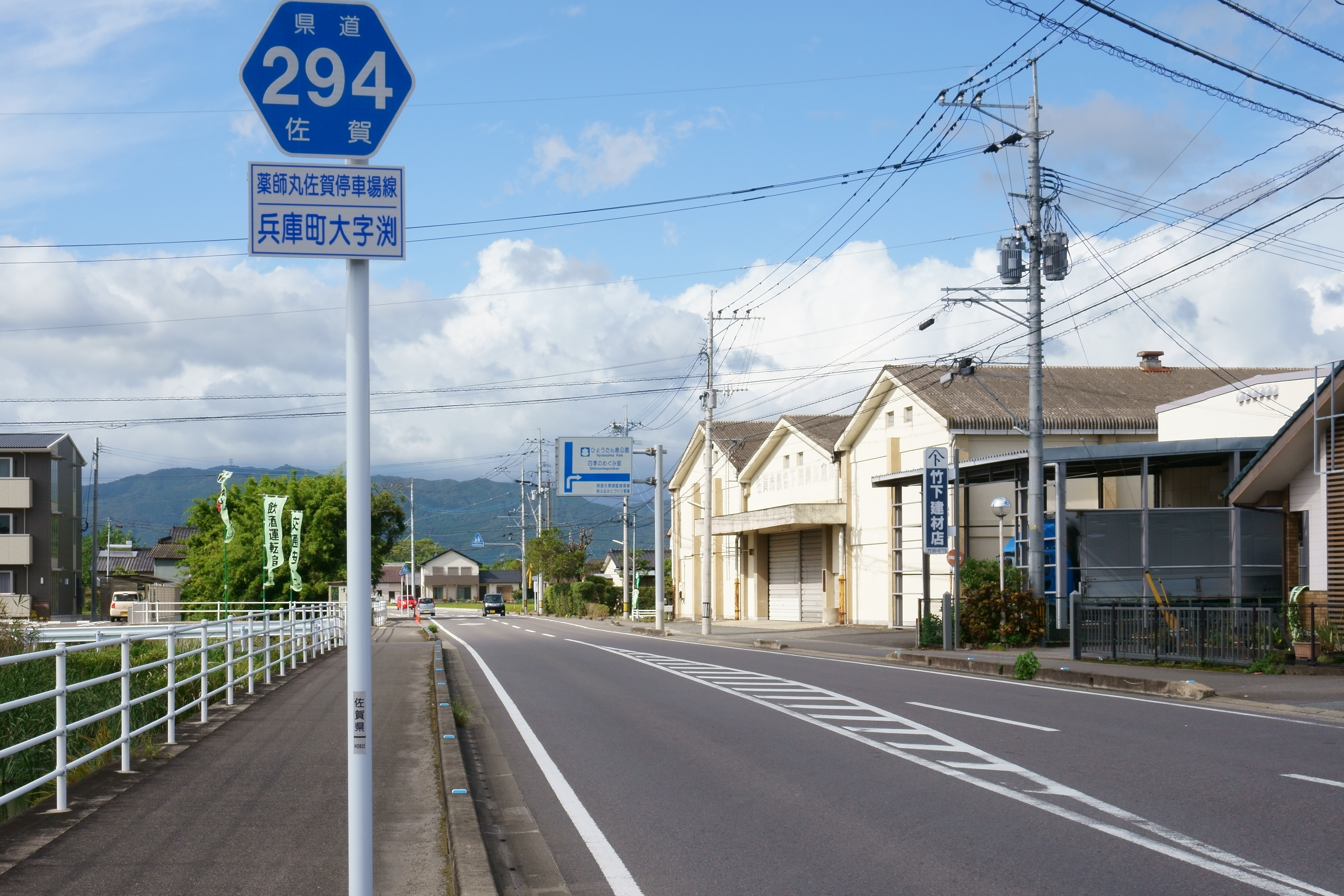 Saga prefectural road No.294 in Hyogo-machi Fuchi, Saga city.